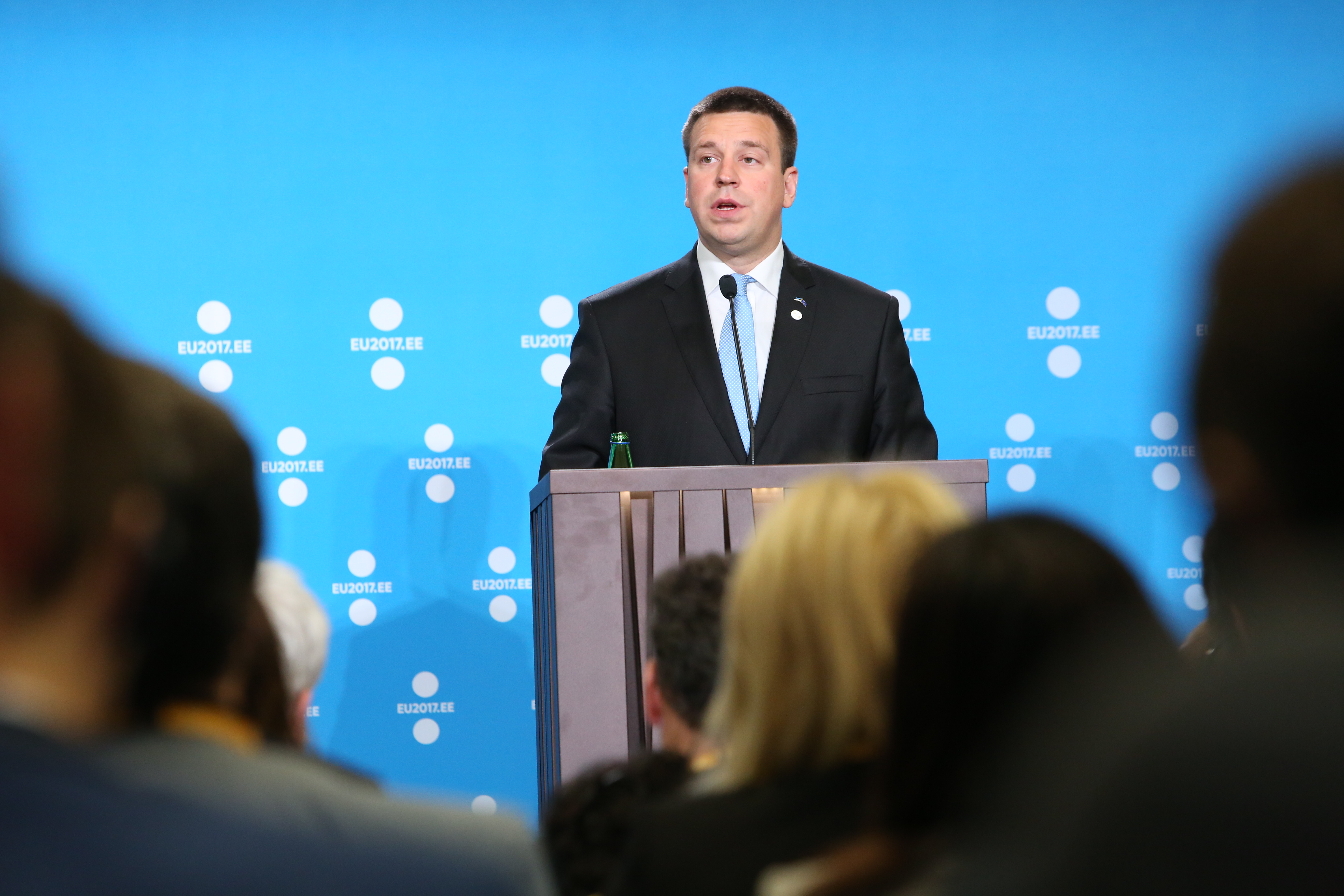 Jüri Ratas speaking at the press conference